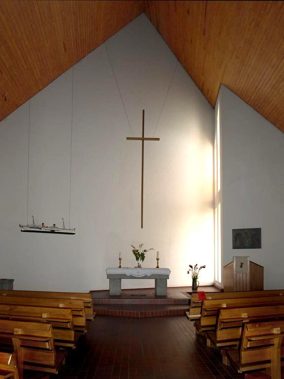 Hörnum (Sylt), Slesvic-Holstein (Germany): church, interior, photo 2008